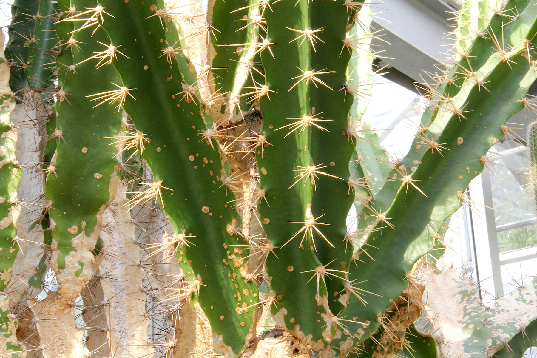 Calymmanthium substerile